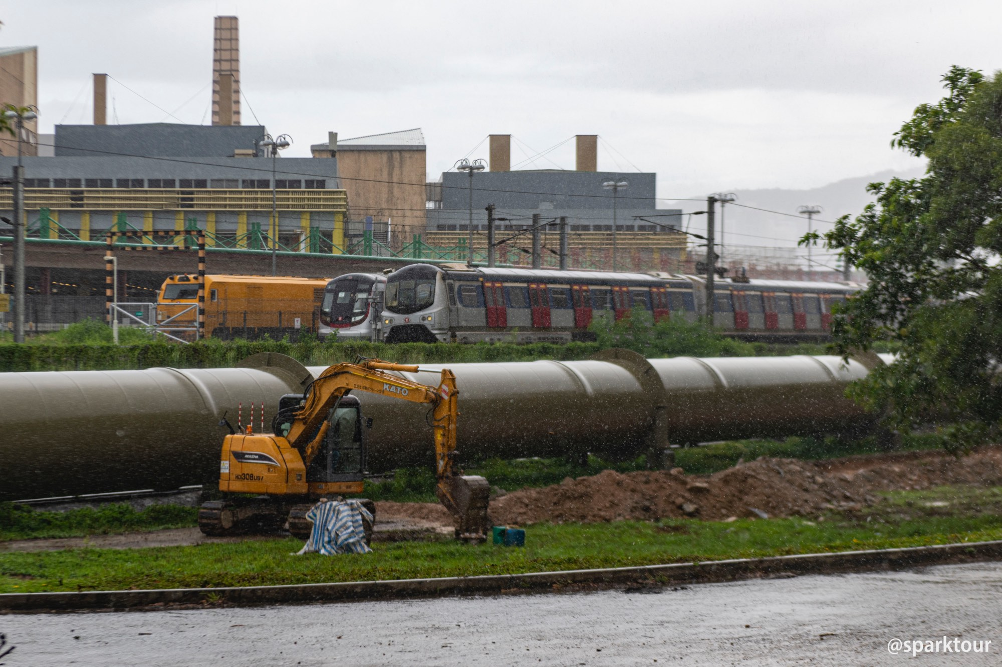 ERL Cammell Train and R-Train at Lo Wu Marshalling Yard